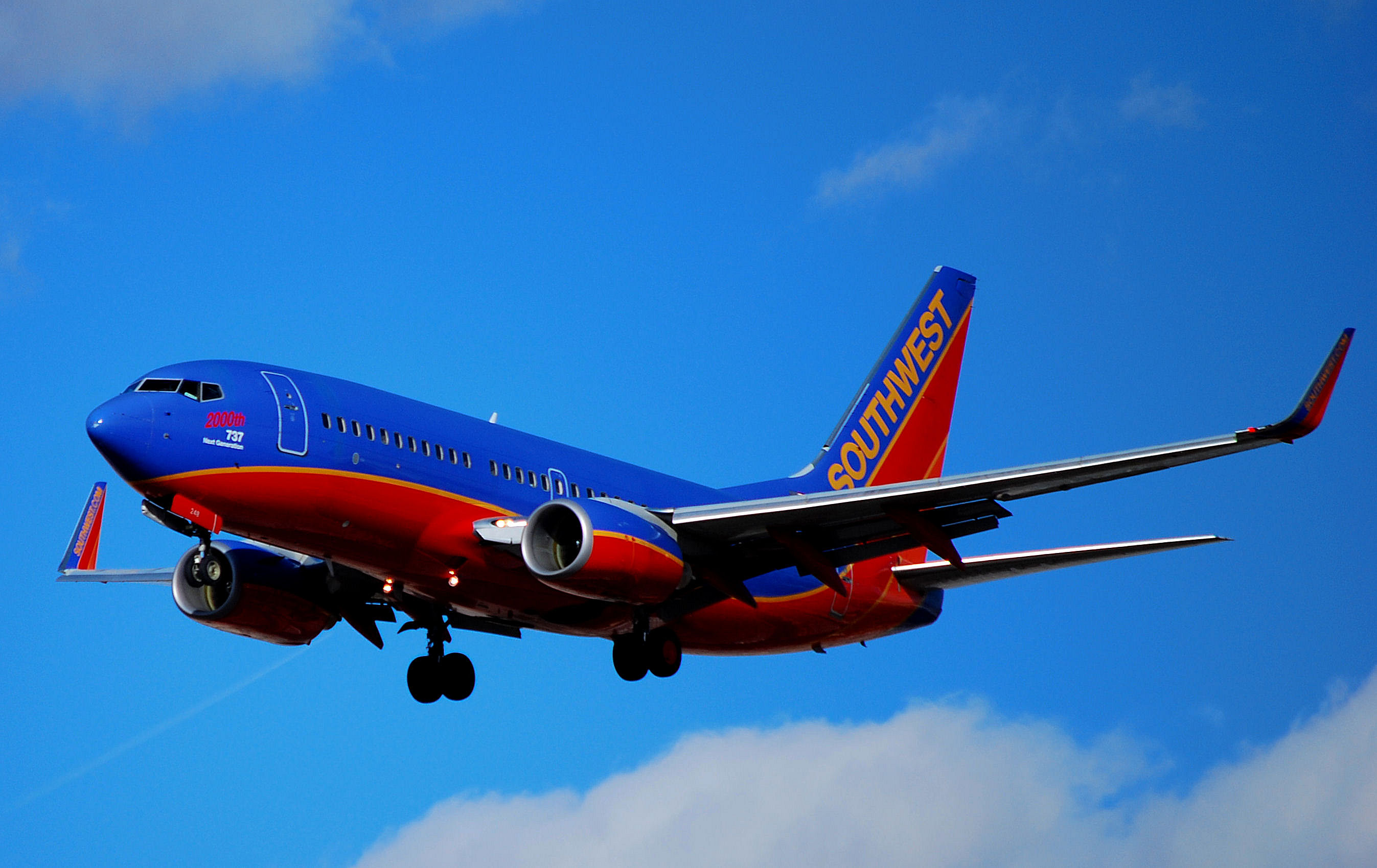 Las Vegas - McCarran International (LAS / KLAS) USA - Nevada, February 21, 2010 Photo: Tomas Del Coro